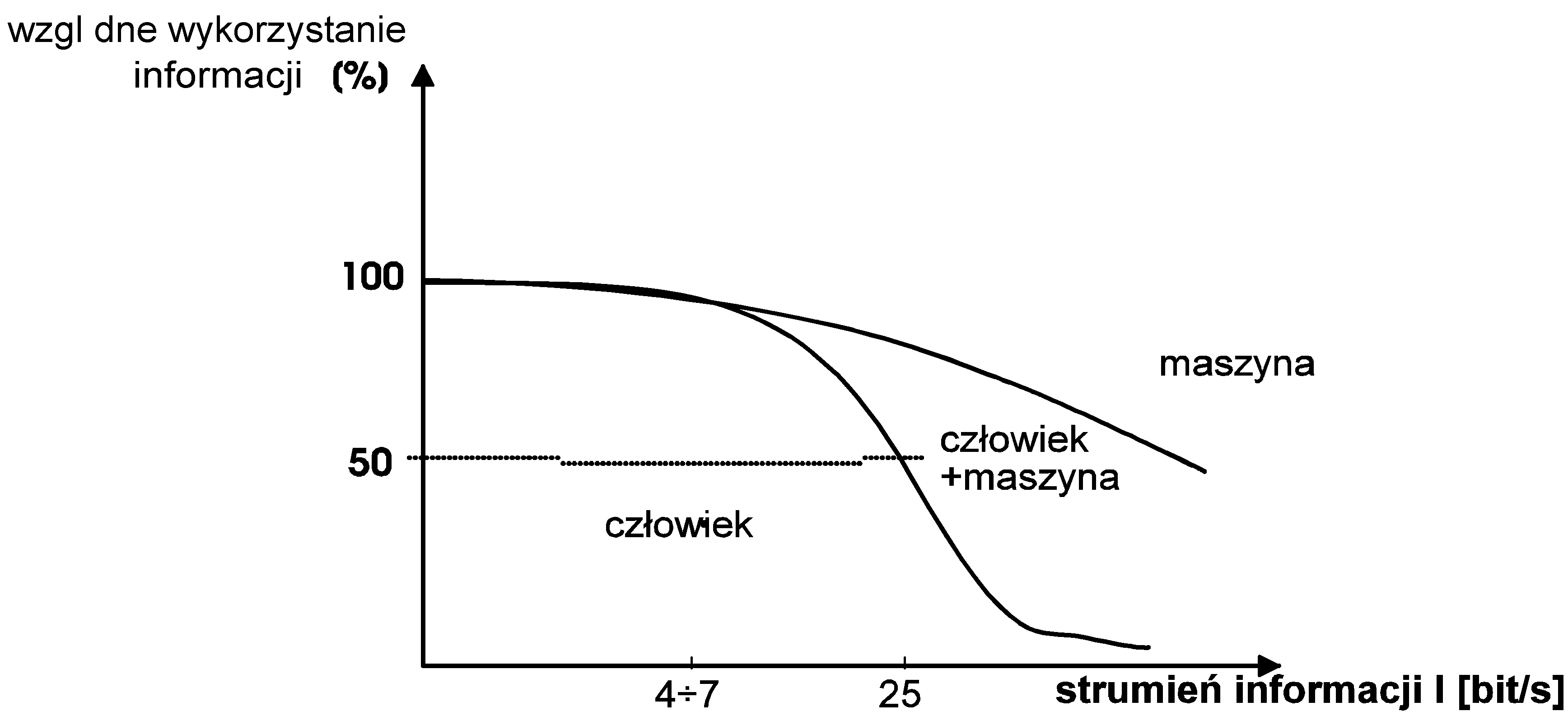 Utilization information as a function of volume of information flow